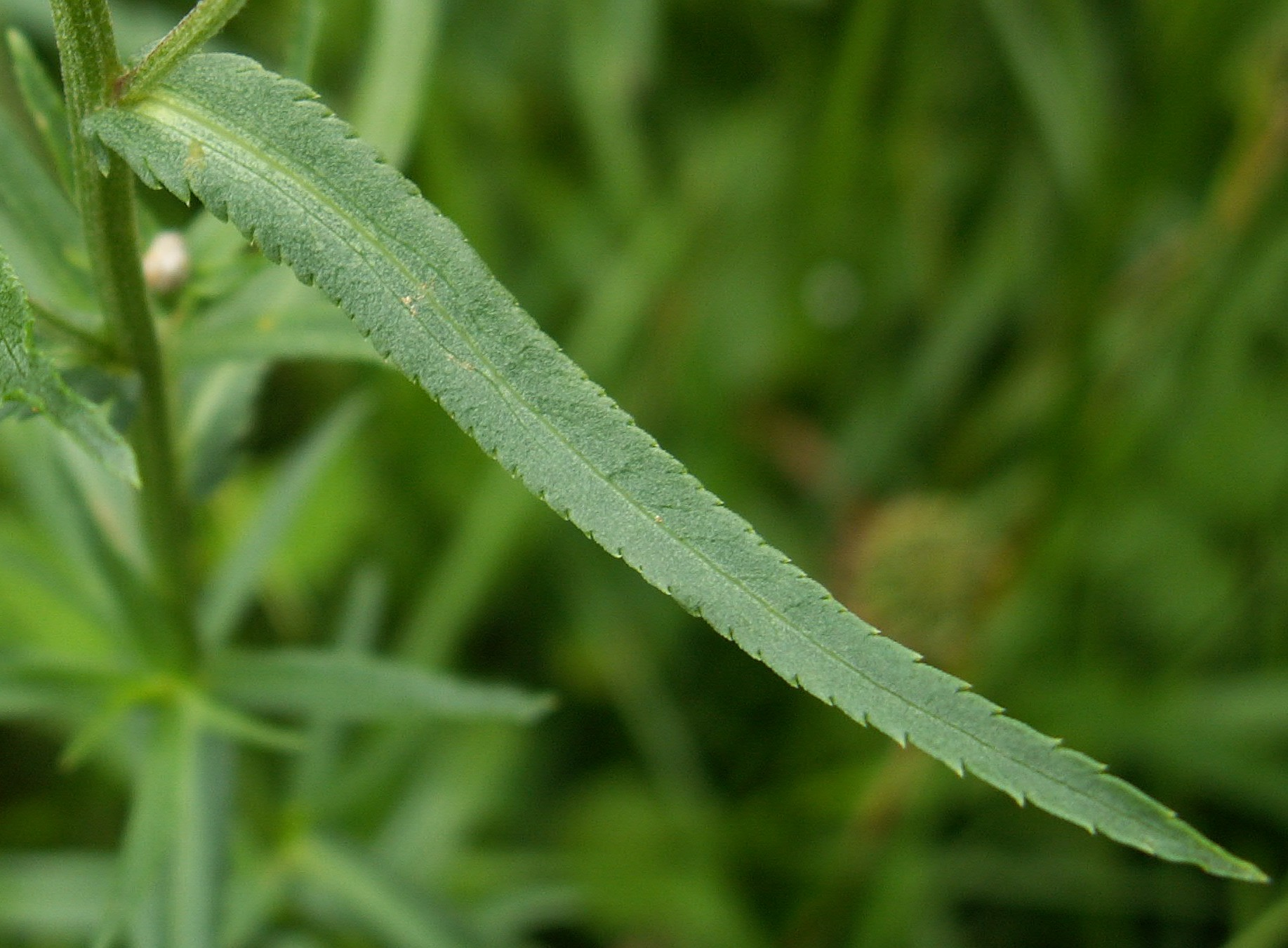 Leaf of Achillea ptarmica. Meadow north of Goleniow, NW Poland.